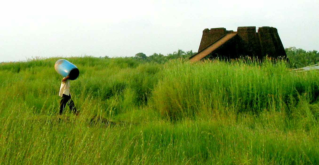 Bekal fort, the largest and the best-preserved fort in Kerala, lies 16 Kms south of Kasaragod on the national highway at the northern tip of the state. The fort, a circular imposing structure of laterite rising 130 ft. above sea level, stands on a 35 acre headland that runs into the Arabian sea.